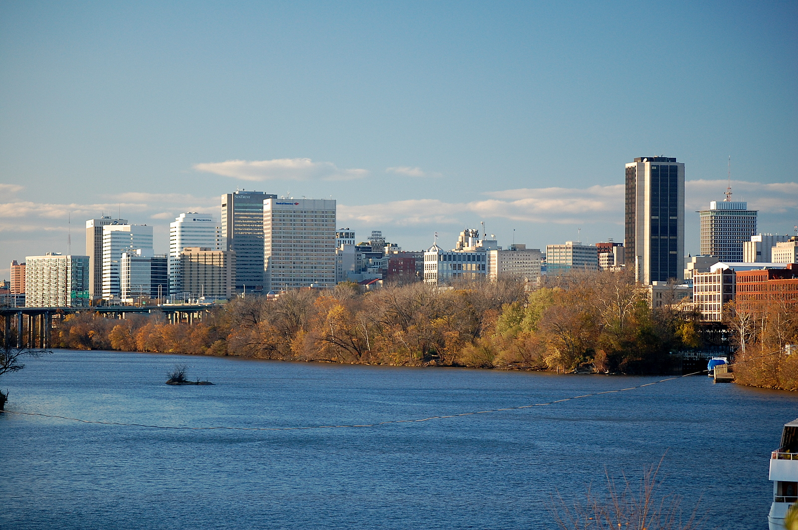 Skyline of Richmond, Virginia, looking from the east across the James River.